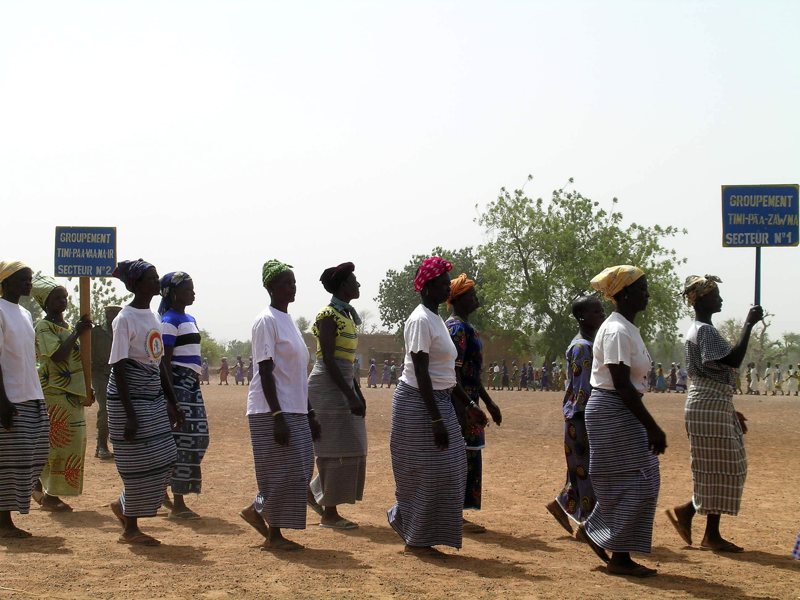 International Women's Day 2008 in Korgnegane, Bougouriba Province in the Burkina Faso (West Africa).